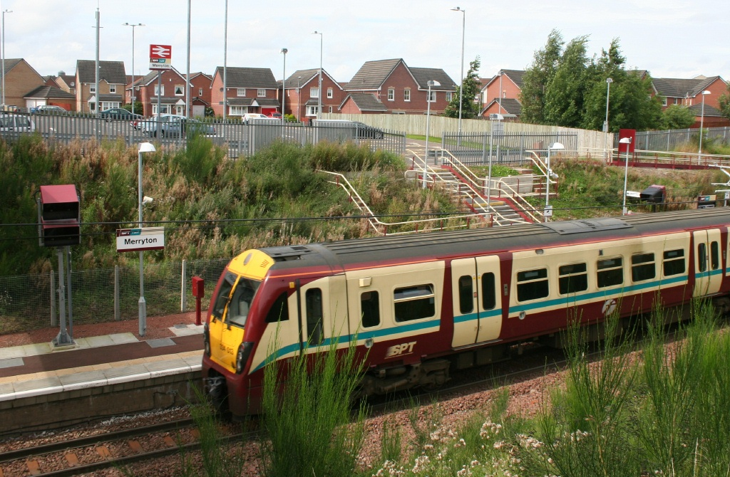 Larkhall to Partick train - Class 334 013 - entering Merryton railway station at 13:27.